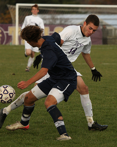 MVNU's Soccer Team